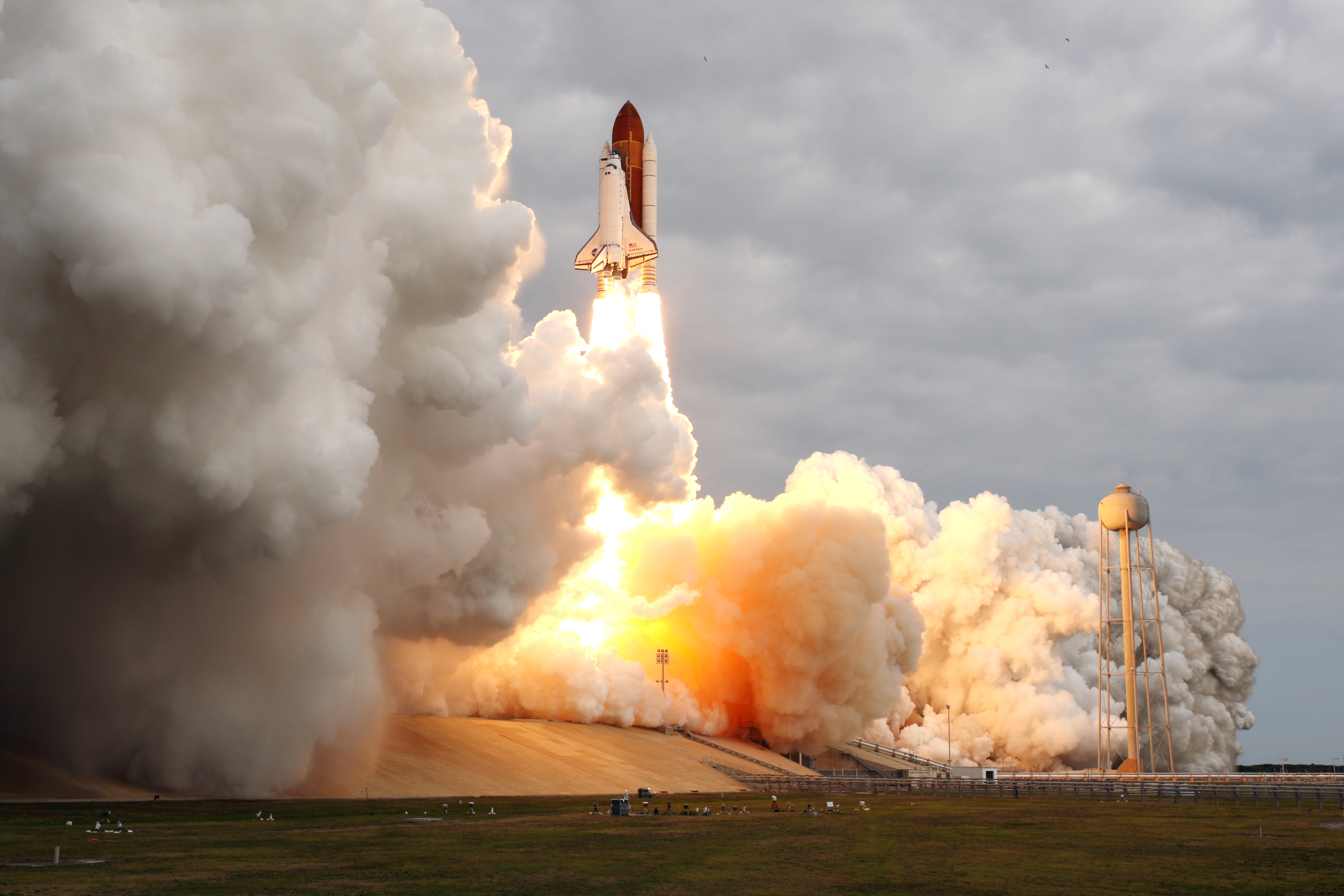 CAPE CANAVERAL, Fla. -- Rising on twin columns of fire and kicking up a trail of smoke and steam, space shuttle Endeavour lifts off from Launch Pad 39A at NASA's Kennedy Space Center in Florida beginning its final flight, the STS-134 mission, to the International Space Station. Launch was on time at 8:56 a.m. EDT on May 16. STS-134 and its six-member crew will deliver the Alpha Magnetic Spectrometer-2 (AMS), Express Logistics Carrier-3, a high-pressure gas tank and additional spare parts for the Dextre robotic helper to the space station. Endeavour's first launch attempt on April 29 was scrubbed because of an issue associated with a faulty power distribution box called the aft load control assembly-2 (ALCA-2).